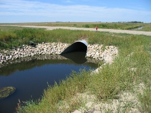 source: my own photo.